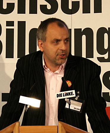 Germany politician of Saxony, Die Linke